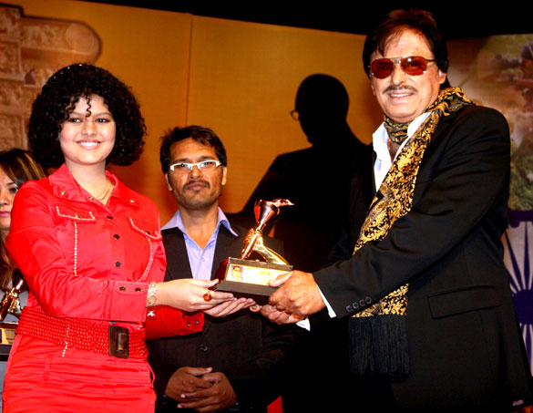 Palak Muchhal and Sanjay Khan at Dadasaheb Ambedkar Awards organised by Kailash Masoom & Harish Shah